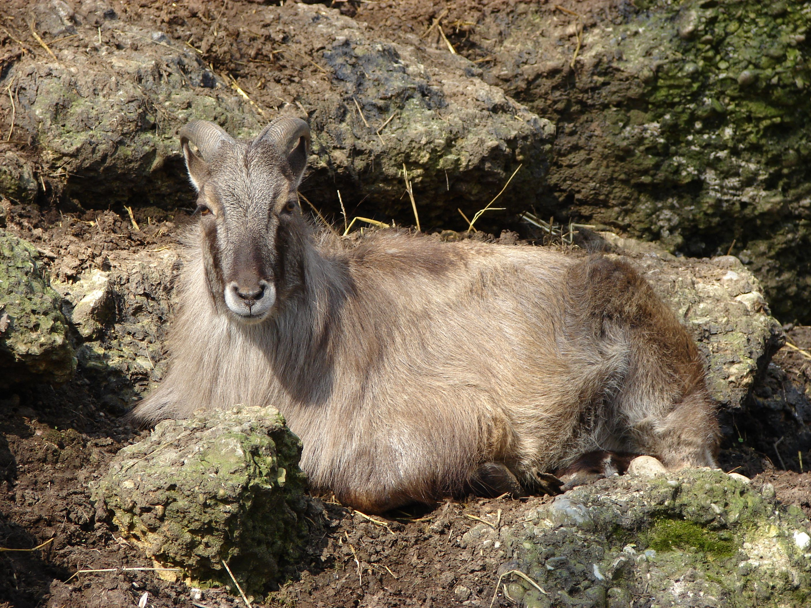 Népalian jharal in the zoo of Stadt Haag, Austria.